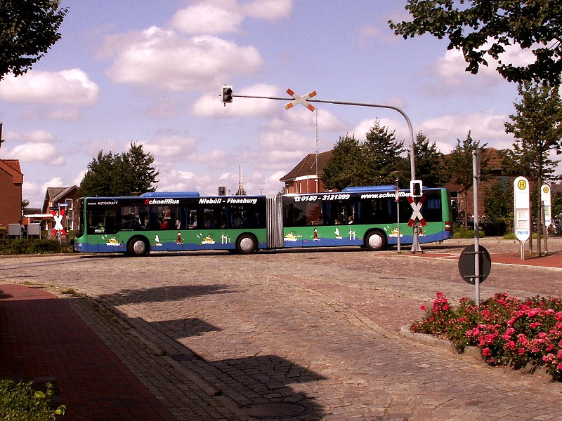 Articulated MAN Lion's City series bus in Niebüll, Germany.